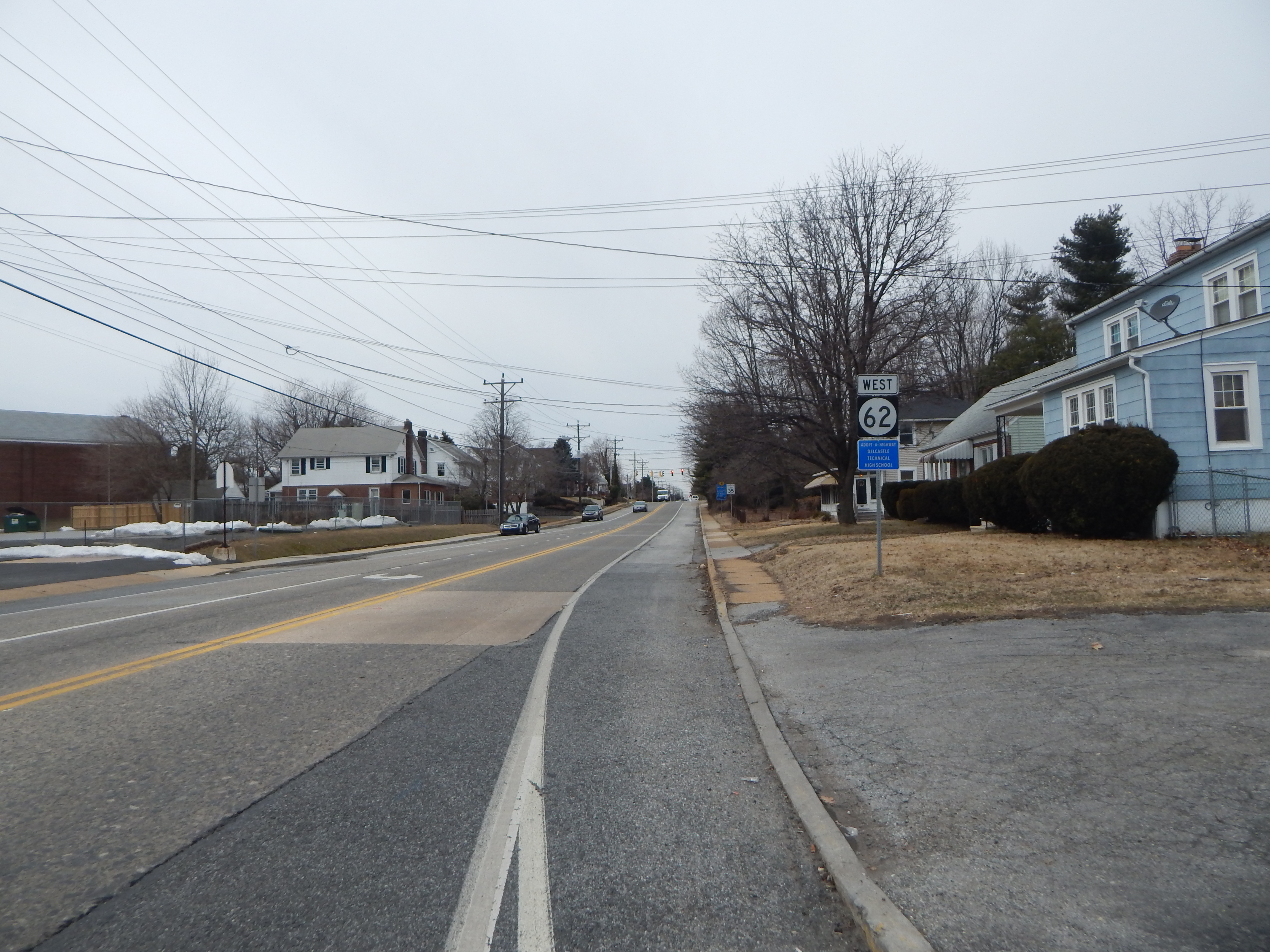 Delaware Route 62 running north from Delaware Route 4 in Newport, Delaware.